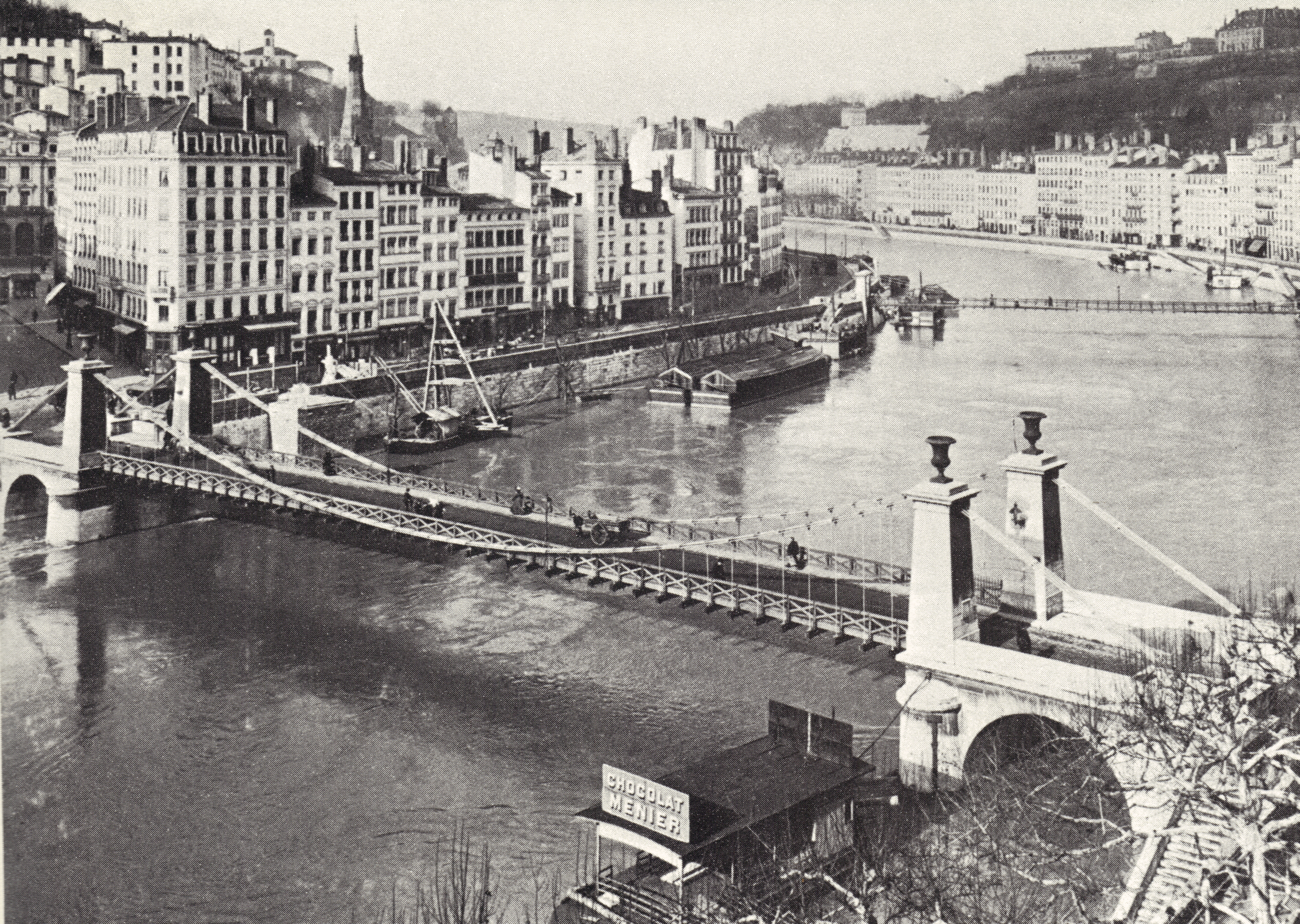 Pont La Feuillée and Saint Paul quarter (Lyon). Suspension bridge over the river Saone built in 1831 and demolished in 1910 to make place for a bridge destroyed in 1944